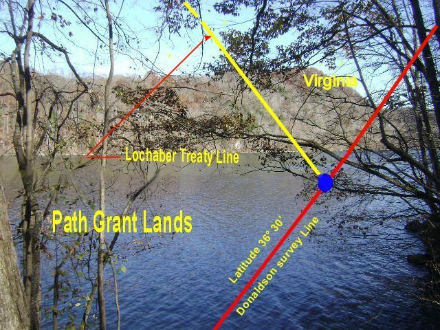 A photo of the point in the holston river marking the line between the colonies of virginia and North carolina at 36° 30’ and 6 miles upstream from the Long Island